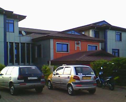 The front of Mount Olives Hospital, Techiman, Brong Ahafo, Ghana. It is on the west side of Sansama Road, a few kilometers north of the central market of Techiman.